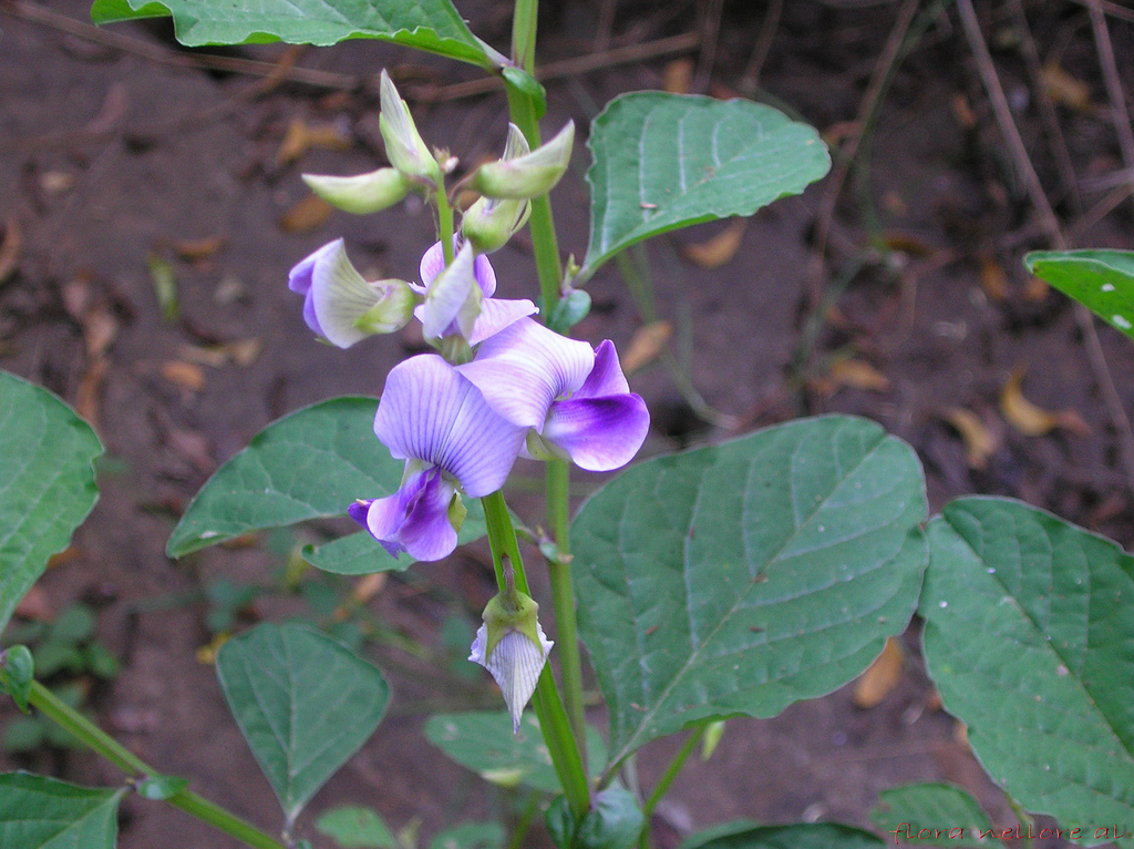 Family: Fabaceae Distribution:A weed of road sides and waste places.Native of tropics. 50-90cm tall glabrous annual, much branched herb. Stems and branches angular.Stipules foliaceous. Leaves 3-12x2-7cm, ovate-rhomboid, obtuse, tapering at the base, pubescent beneath. Flowers 1.5-2cm lon bluish -purple or white in 8-15cm long terminal racemes. Bracts and bracteoles minute. Pods 3-5cm long, cylindric.